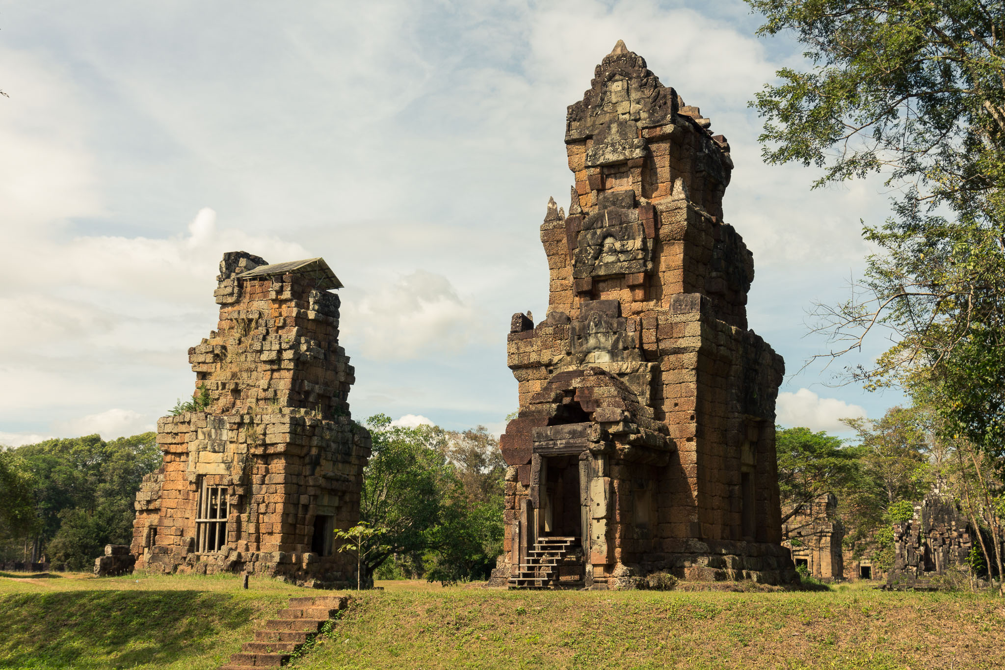 Prasat Suor Prat, Angkor